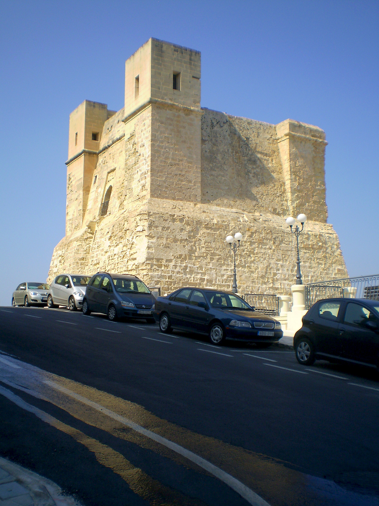 Wignacourt tower St. Paul's Bay, Malta, seen from the east.